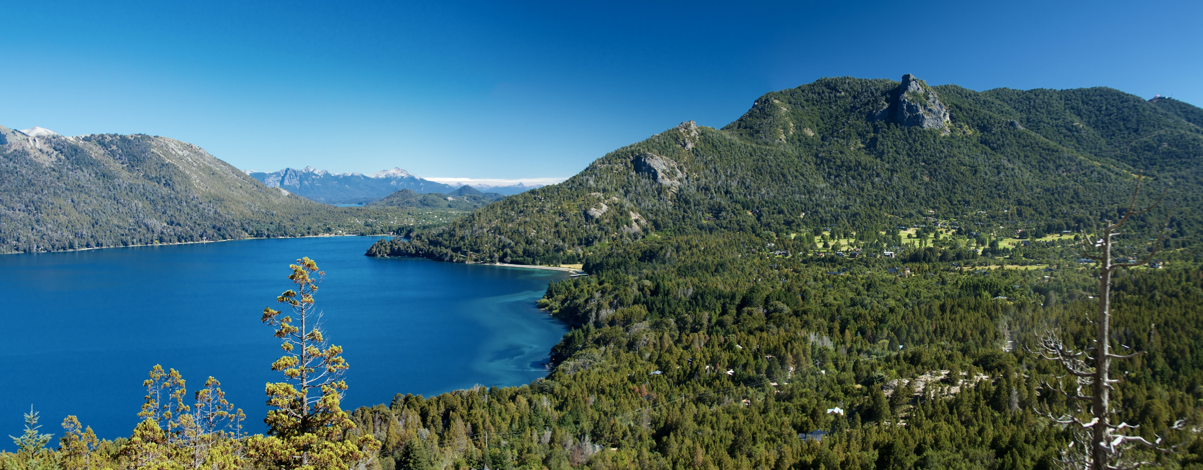 Argentina - Bariloche 063 - Panorama overlooking Lago Gutiérrez